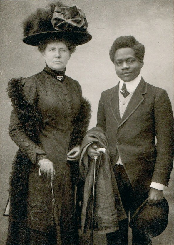 Portrait photograph of Louise Derscheid and Paul Panda Farnana